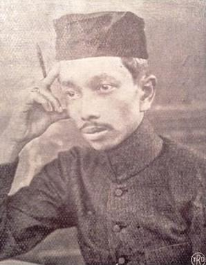 Zainuddin Labay El Yunusy pd